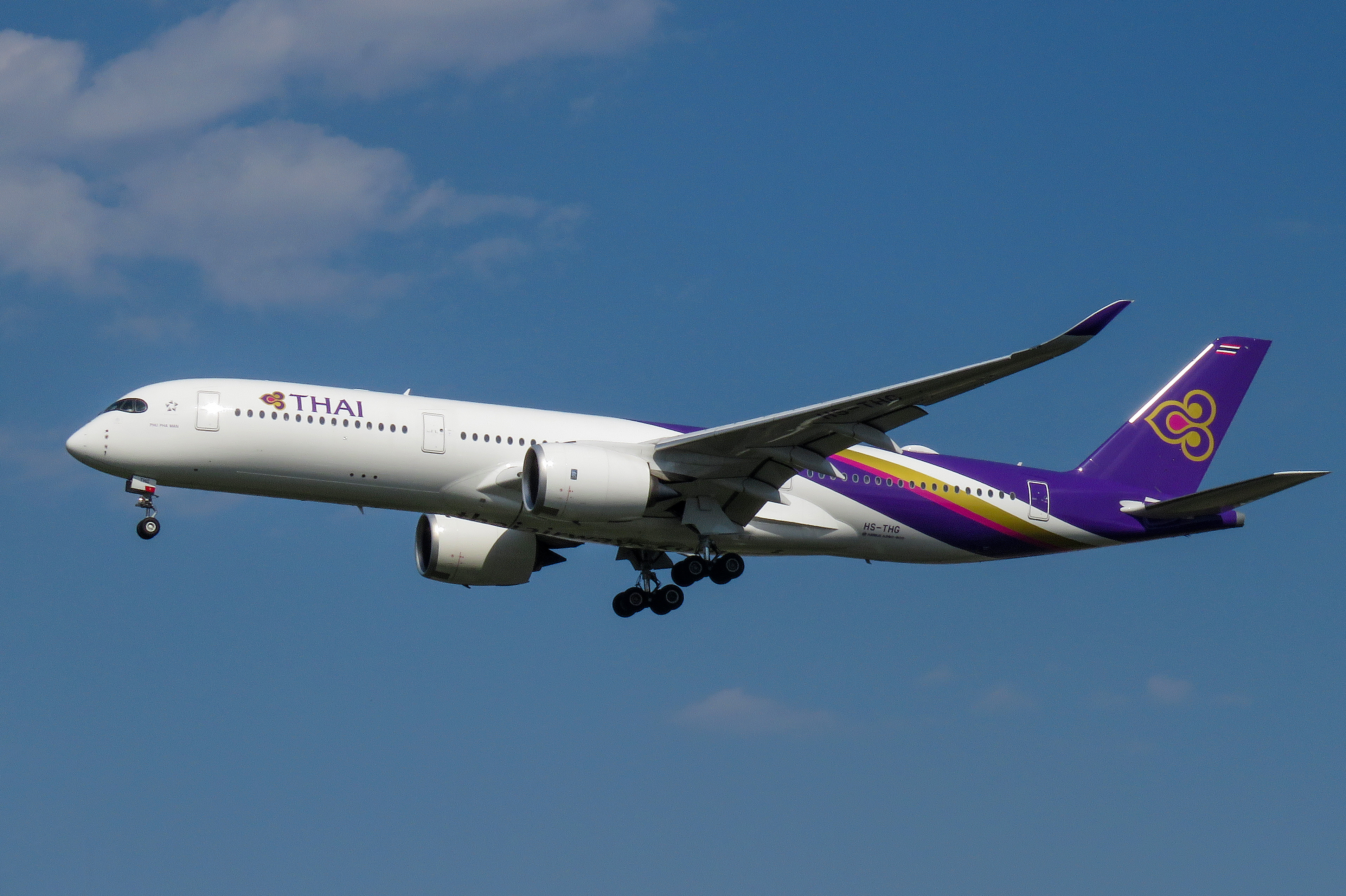 Thai 614 from Bangkok. The last one before Chammae-1, well, PRK727.